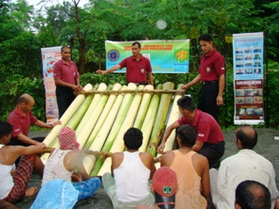 photograph of community capacity building by NDRF in Bihar